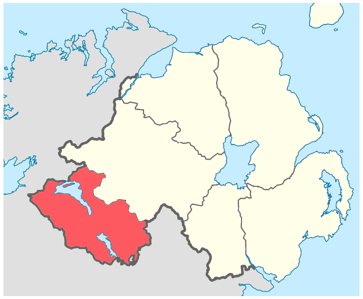 Map of County Fermanagh, Northern Ireland, United Kingdom